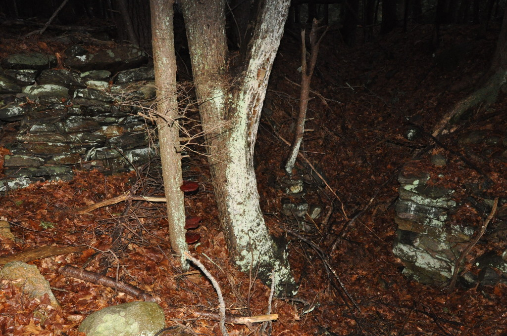 Eldredge Mills Archeological District, Willington, Connecticut. Building foundations.